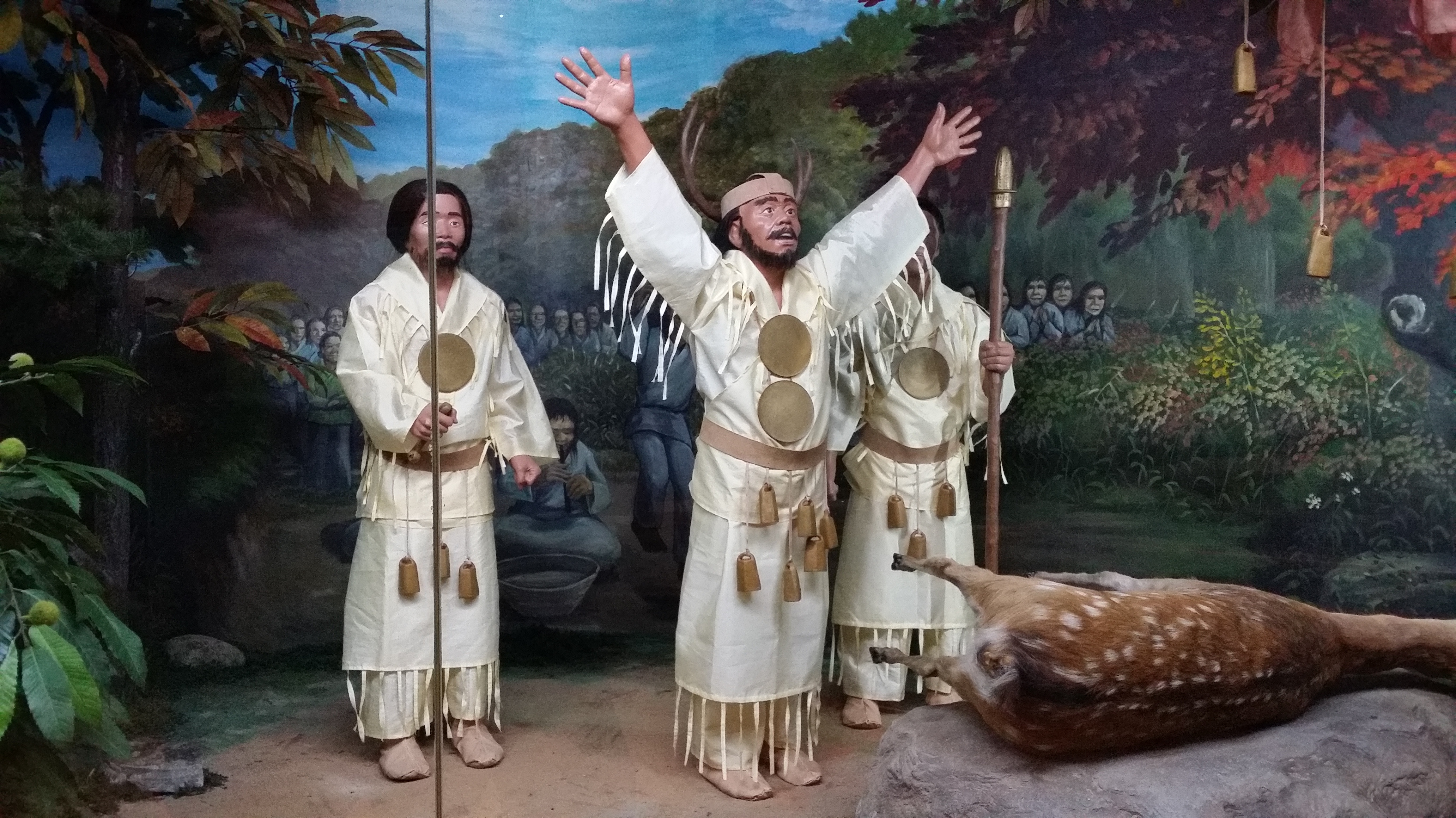 At Daejeon prehistoric museum